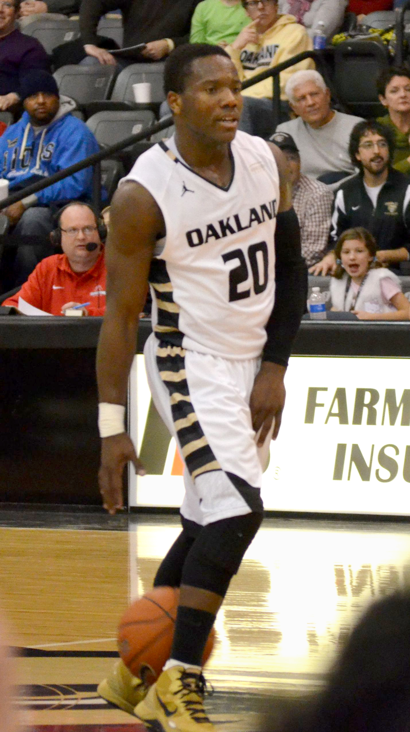 Oakland University freshman point guard Khalil Felder in a game against Youngstown State.